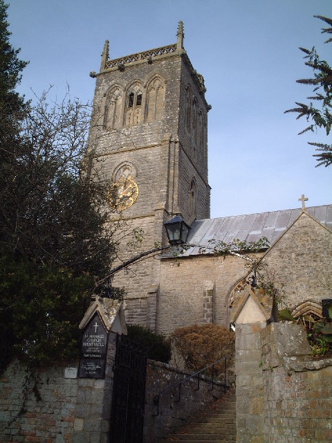 West tower of St Michael's parish church, Brent Knoll, Somerset, seen from the south